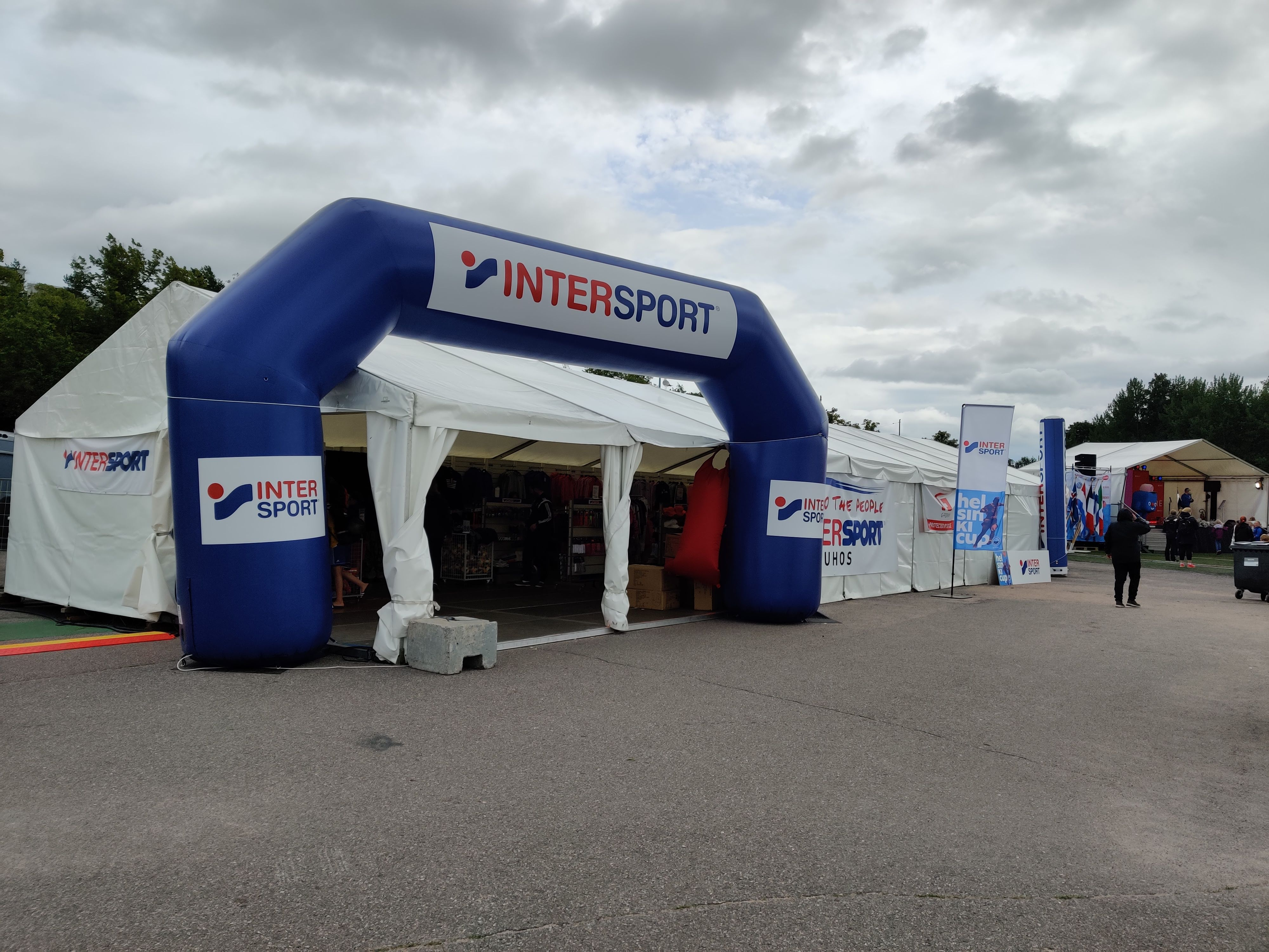 Temporary Intersport store at the Helsinki Cup 2019 main venue in Käpylä sports park, Helsinki, Finland. Sold varying sports products and memorabilia, focusing on association football, including official tournament merchandise.